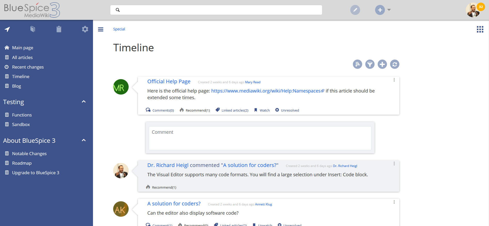 Discussion and communication function in BlueSpice MediaWiki. Here is the central overview of all discussions and contributions in the Timeline